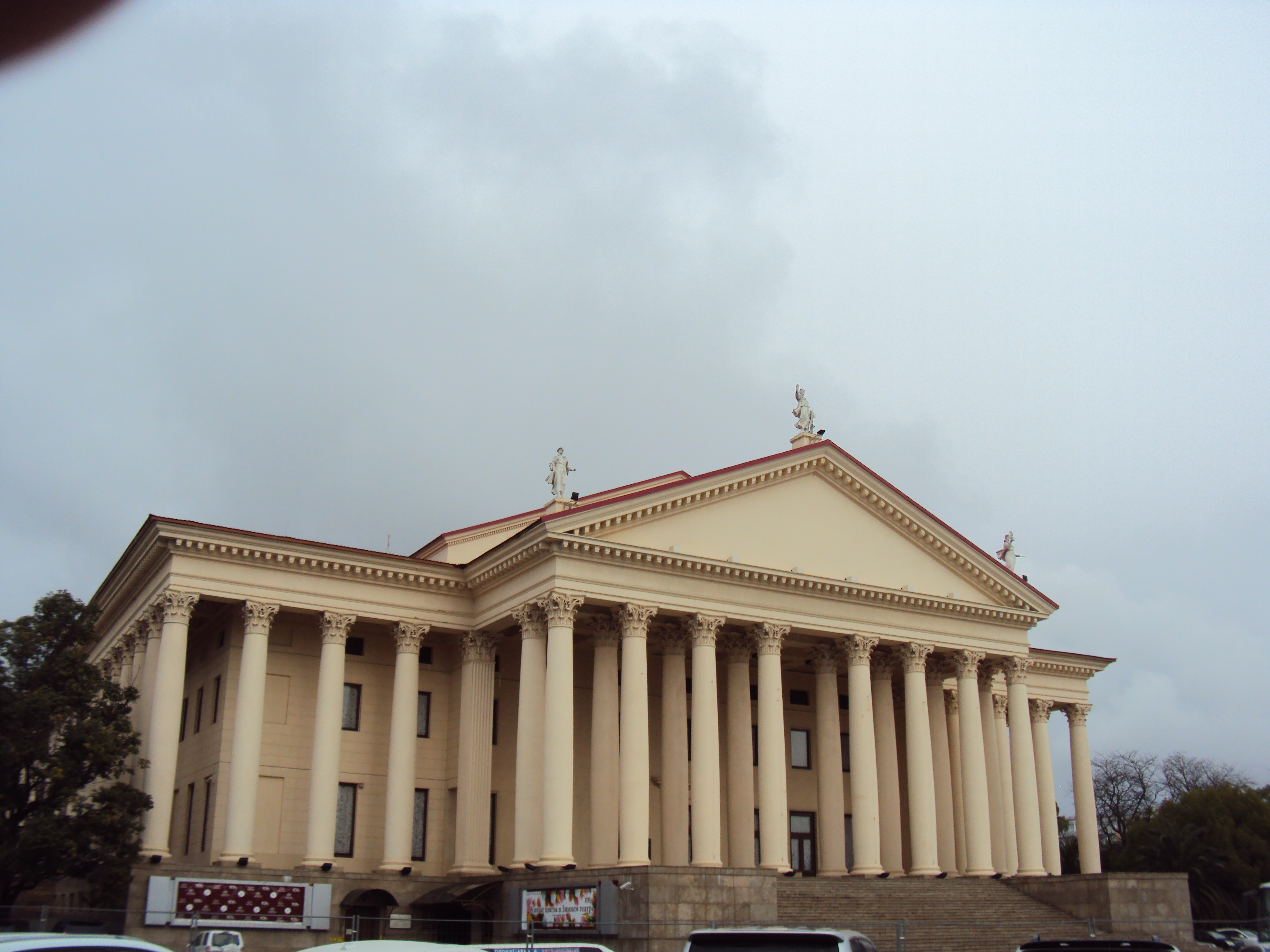 Theatre winter